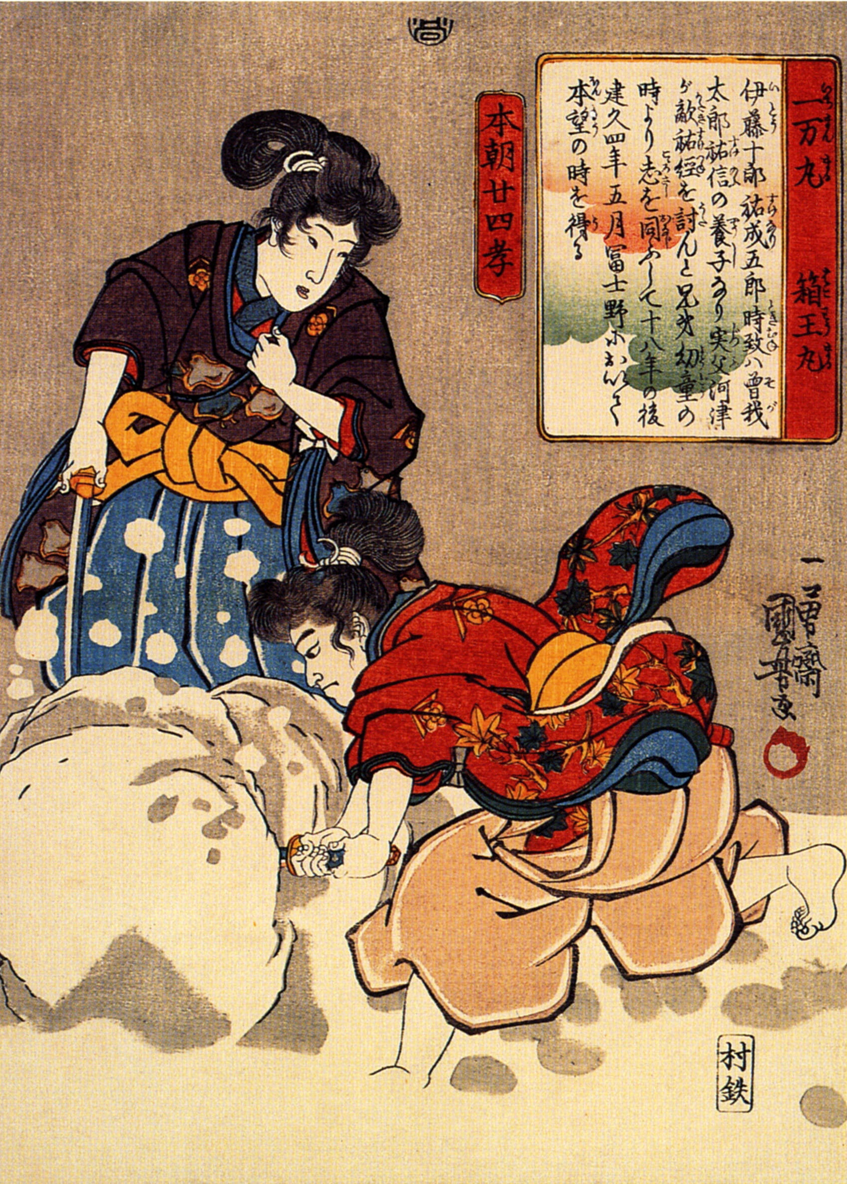 Ichimanmaru and Hakoōmaru, from the series Twenty-four Japanese Paragons of Filial Piety (Honchō nijūshi kō), Woodblock print. This print represents Jūrō and Gorō practising swordsmanship on a mound of snow. They are preparing to revenge the murder of their father in which they succeed.